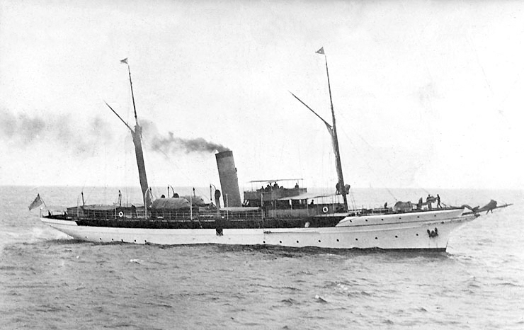 Oneida (American Steam Yacht, 1897) Photographed before World War I. [See summary.] Built by Harlan and Hollingsworth at Wilmington, Delaware, this yacht was ordered taken over for U.S. Navy service abroad on 14 July 1917 and assigned the identification number SP-432. However, these orders were cancelled on 27 September 1917 without any action being taken. She remained in civilian hands. U.S. Naval Historical Center Photograph.